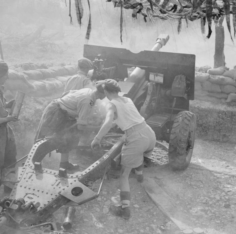 The British Army in Italy 1944 25-pdr of 152nd Field Regiment (Ayrshire Yeomanry) in action during the assault on the Gustav Line, 13 May 1944. Note the new flash eliminator on the gun.